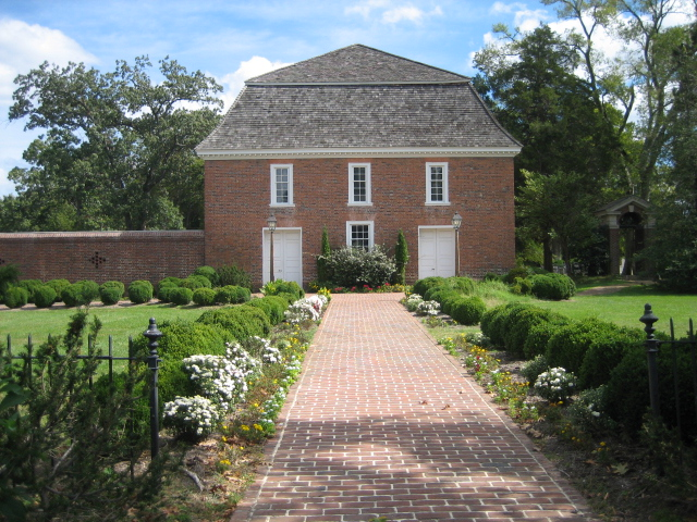 St. Barnabas Church in October of 2007